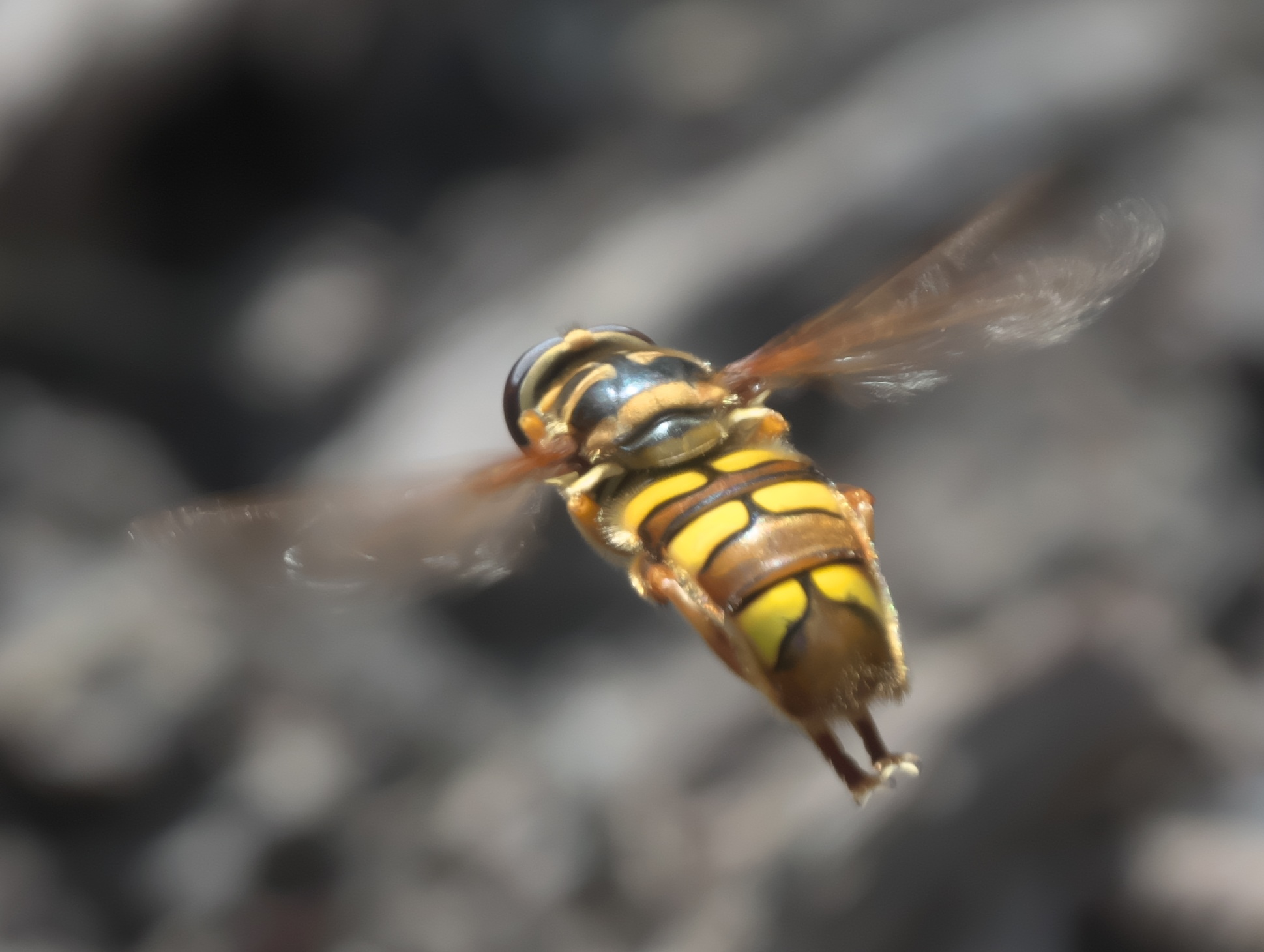 Milesia virginiensis, Yellowjacket Hover Fly, ID Confidence: 92